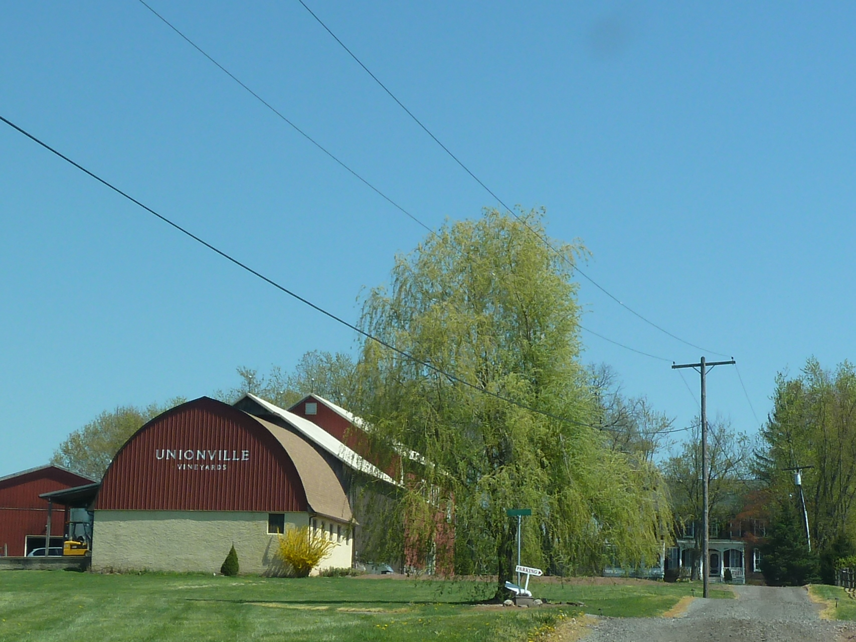 A picture of entrance to Unionville Vineyards in Ringoes, NJ. The winery is located on preserved farmland in rustic western New Jersey.